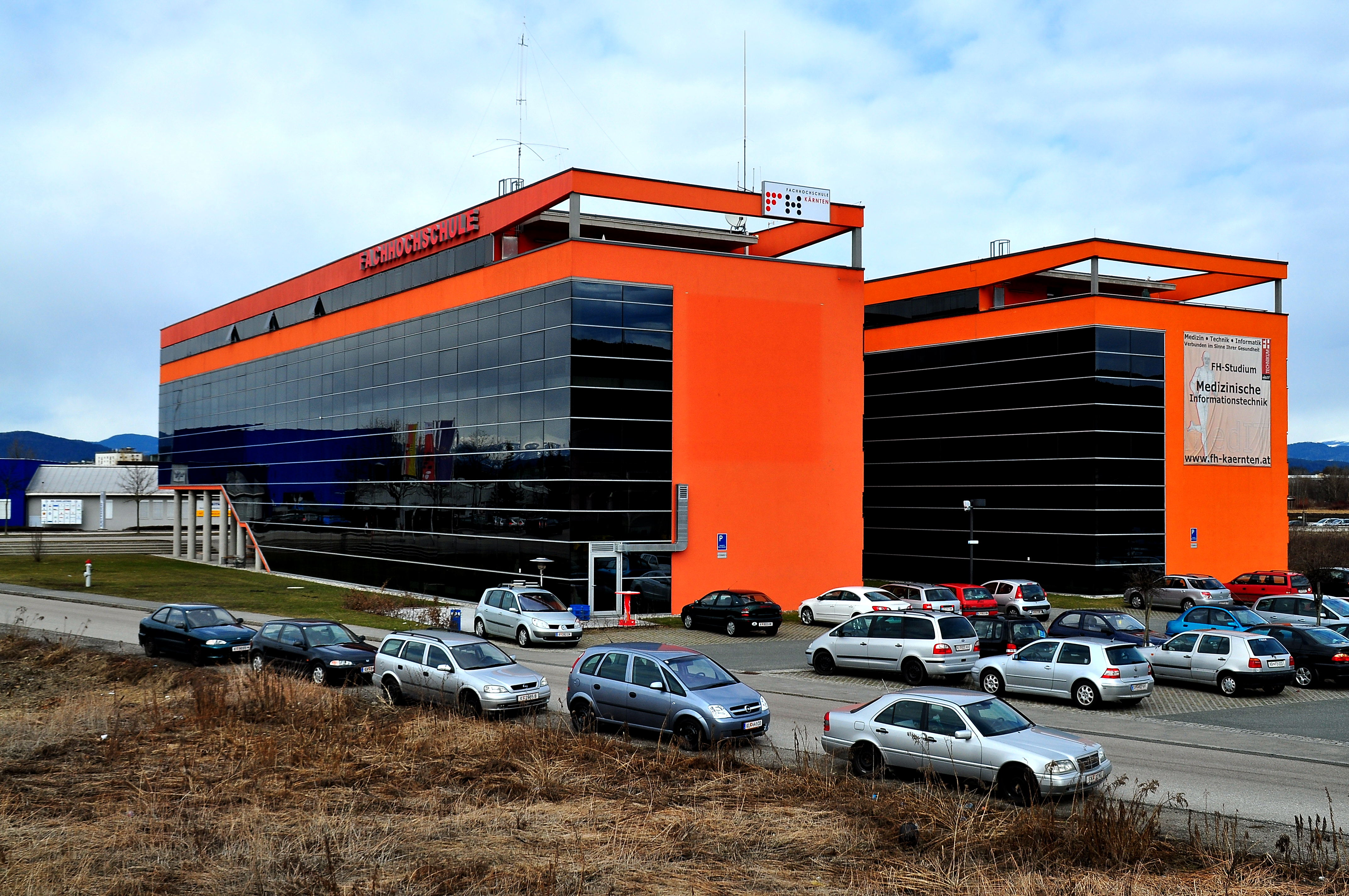 University of applied sciences (UAS) Kaernten on the Primoschgasse in the 11th district "Sankt Ruprecht" of the Carinthian capital Klagenfurt, Carinthia, Austria